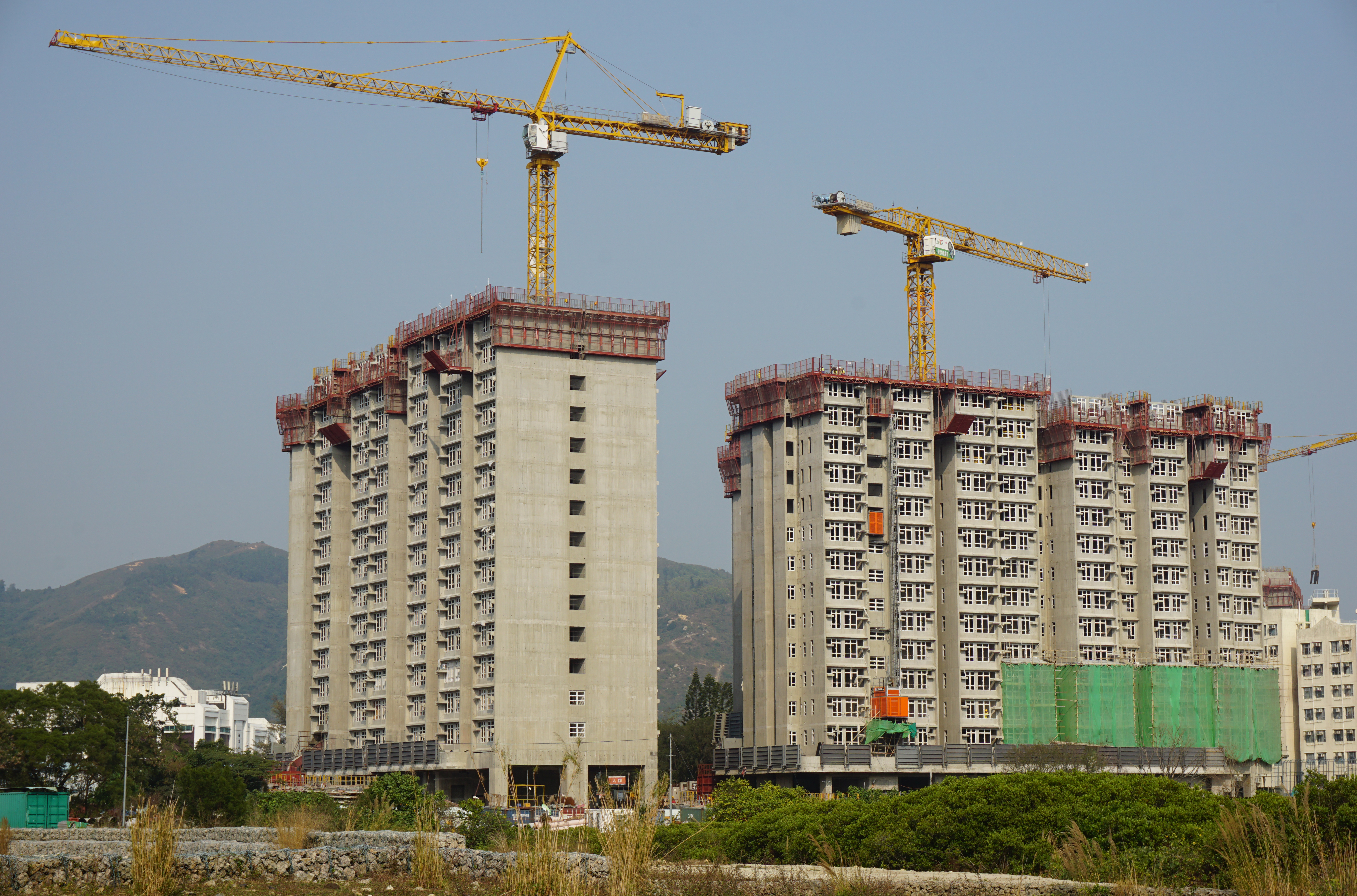 Ngan Ho Court in Mui Wo, Hong Kong.